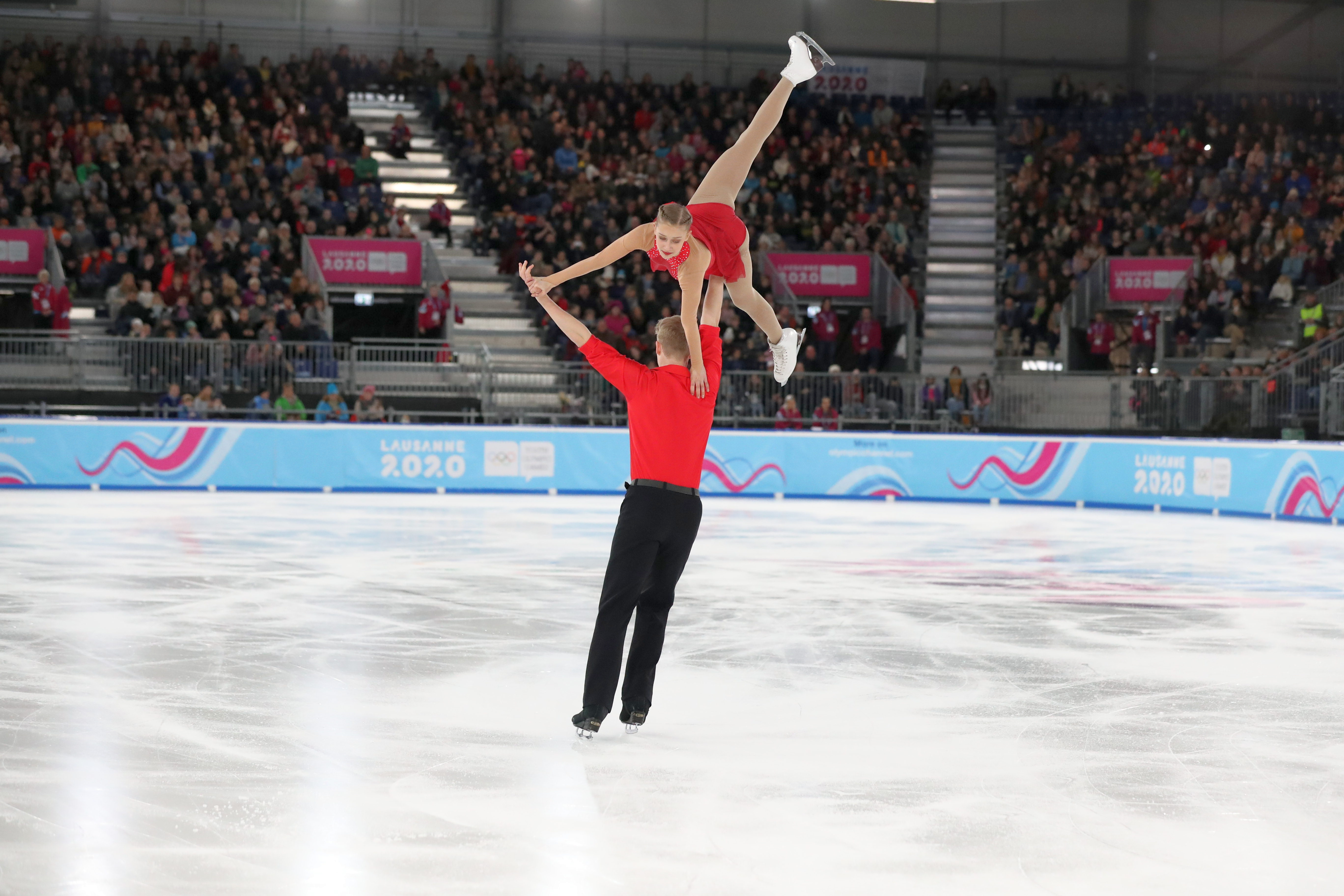 Figure skating at the 2020 Winter Youth Olympics in Lausanne at 12 January 2020 – Pair skating free dance – Germany: Letizia Roscher & Luis Schuster